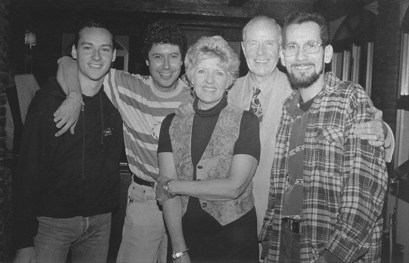 Tommy Whittle after a concert at the Magnum´s Jazz Club in Malaga (Spain) with his band in 1998.